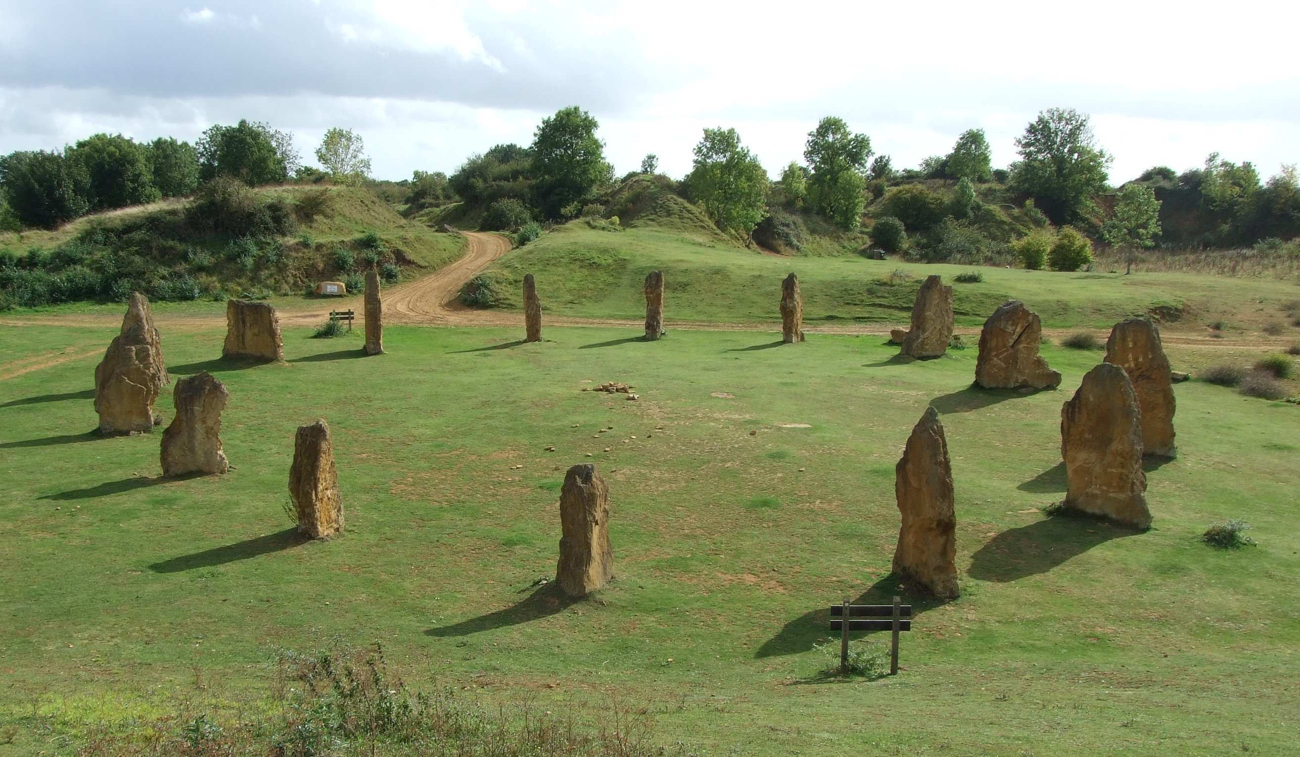 Stone Circle at Ham Hill, Somerset UK. This circle was erected in AD 2000.